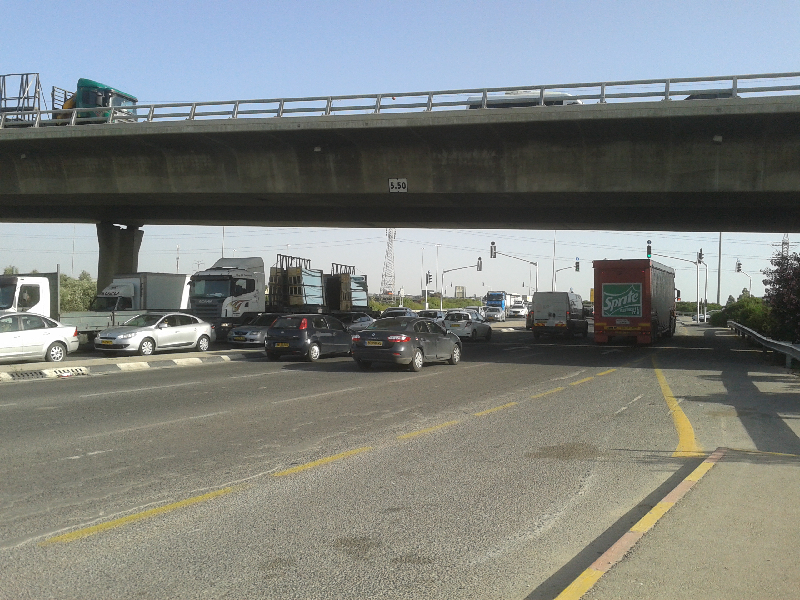 View from road no. 444 to the north. Highway no. 5 is on the bridge.